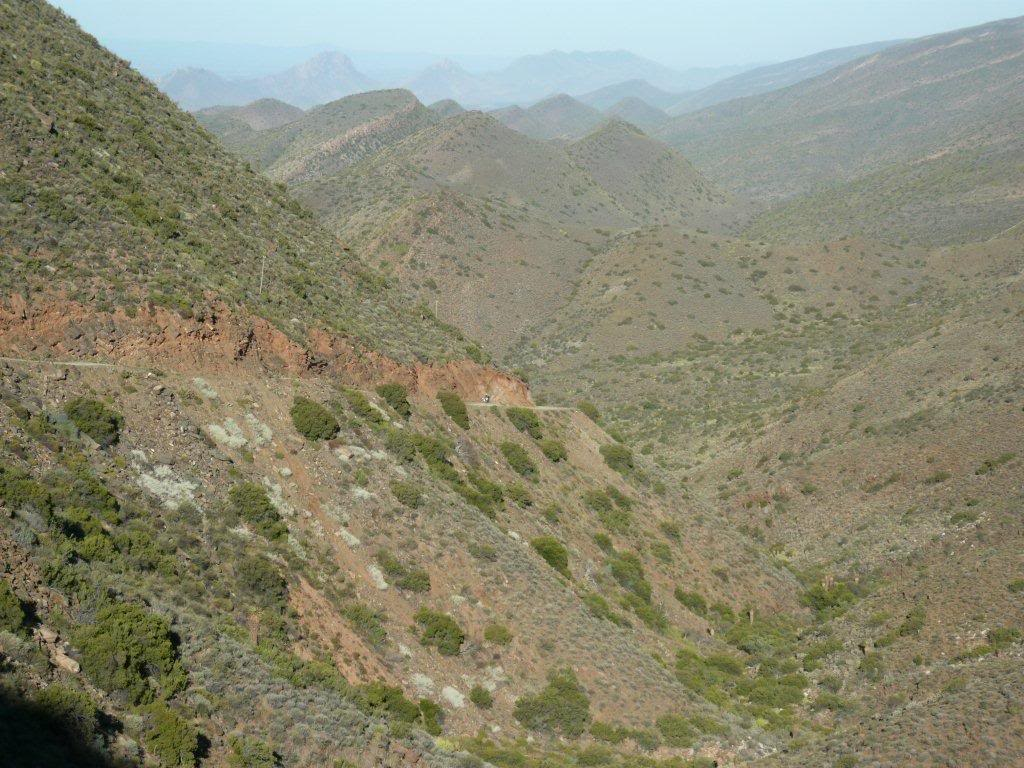 A section of the Bosluiskloof Pass, situated on the road from Laingsburg to Gamkapoort Dam, in the vicinity of Ladismith